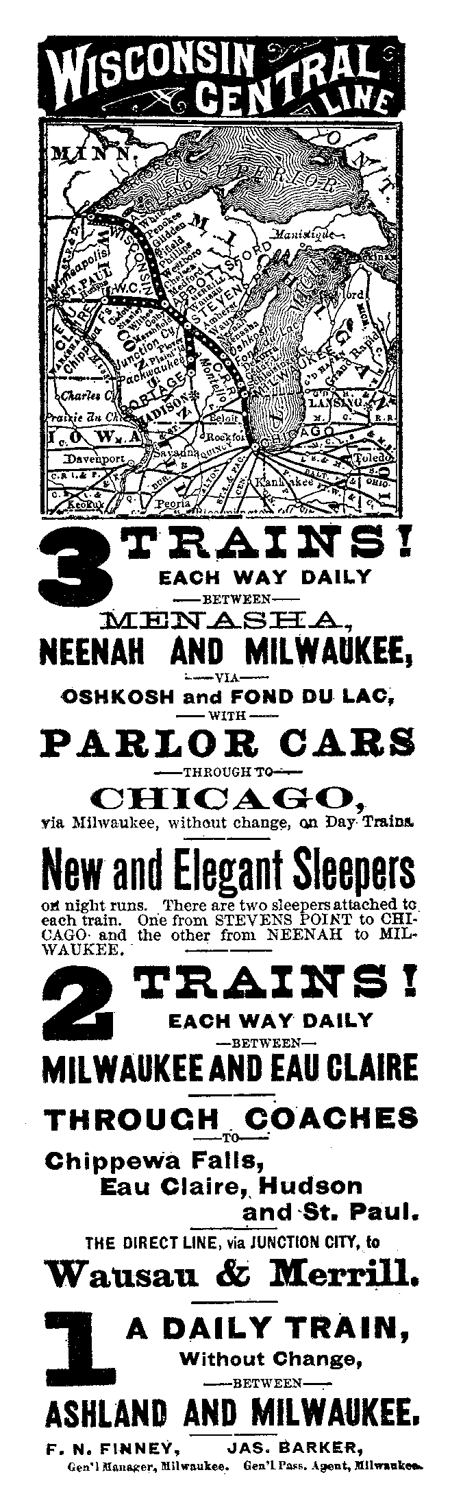 This newspaper advertisement promoted the services of the Wisconsin Central Railway in 1883.